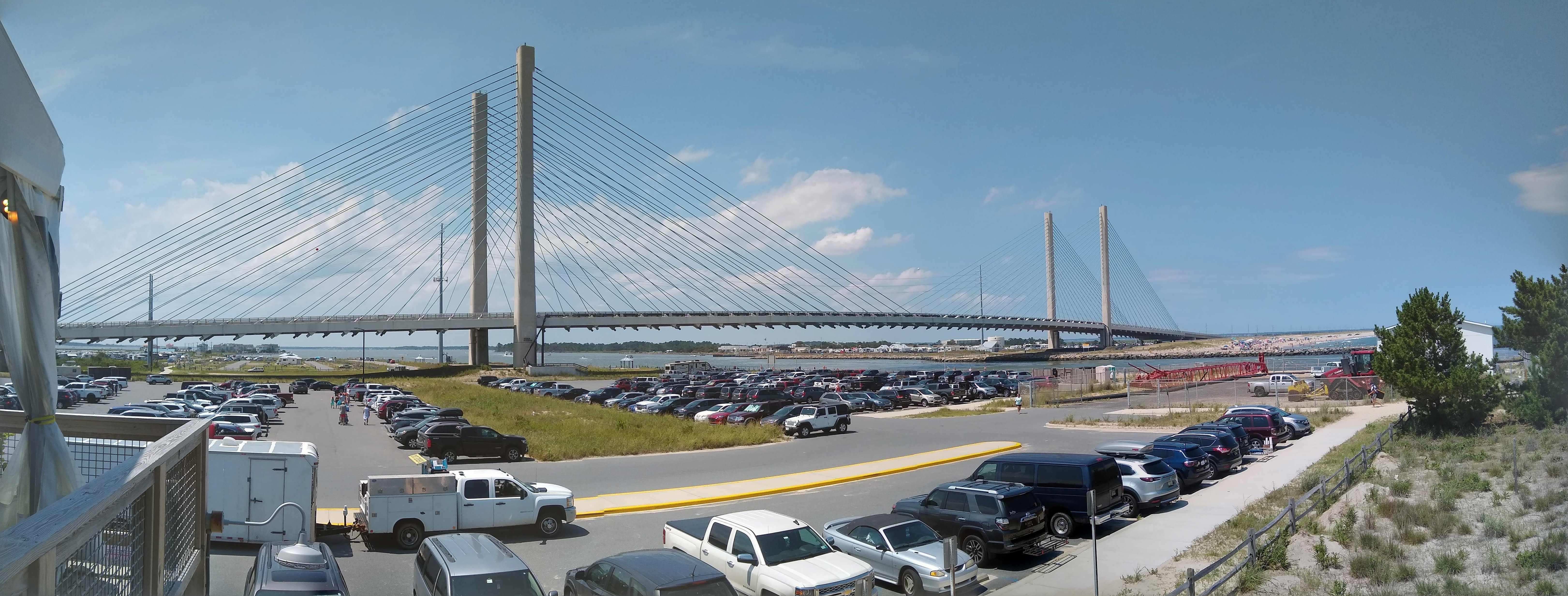 Panorama of the Charles W Cullen Bridge in 2020.